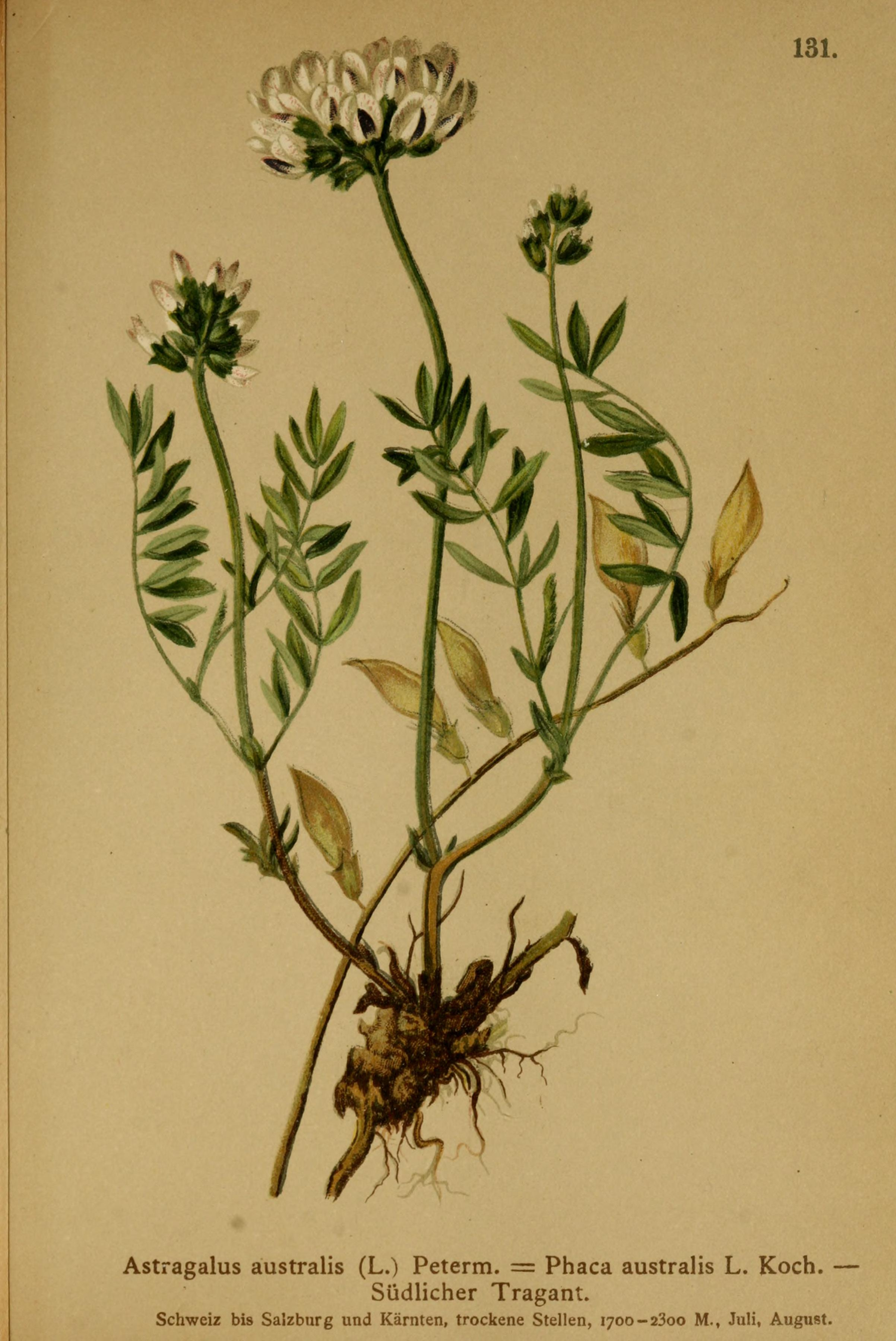 Title: Atlas der Alpenflora Year: 1882 (1880s) Authors: Hartinger, Anton, b. 1806; Dalla Torre, K. W. von (Karl Wilhelm), 1850-1928; Deutscher Alpenverein (Founded 1874) Subjects: Mountain plants Publisher: Wien : Eigenthum und Verlag des Deutschen und Oesterr. Alpenvereins Text Appearing Before Image: 131. Text Appearing After Image: Astragalus australis (L.) Peterm. = Phaca australis L. Koch. Südlicher Tragant. Schweiz bis Salzburg und Kärnten, trockene Stellen, 1700-2300 M., Juli, August.